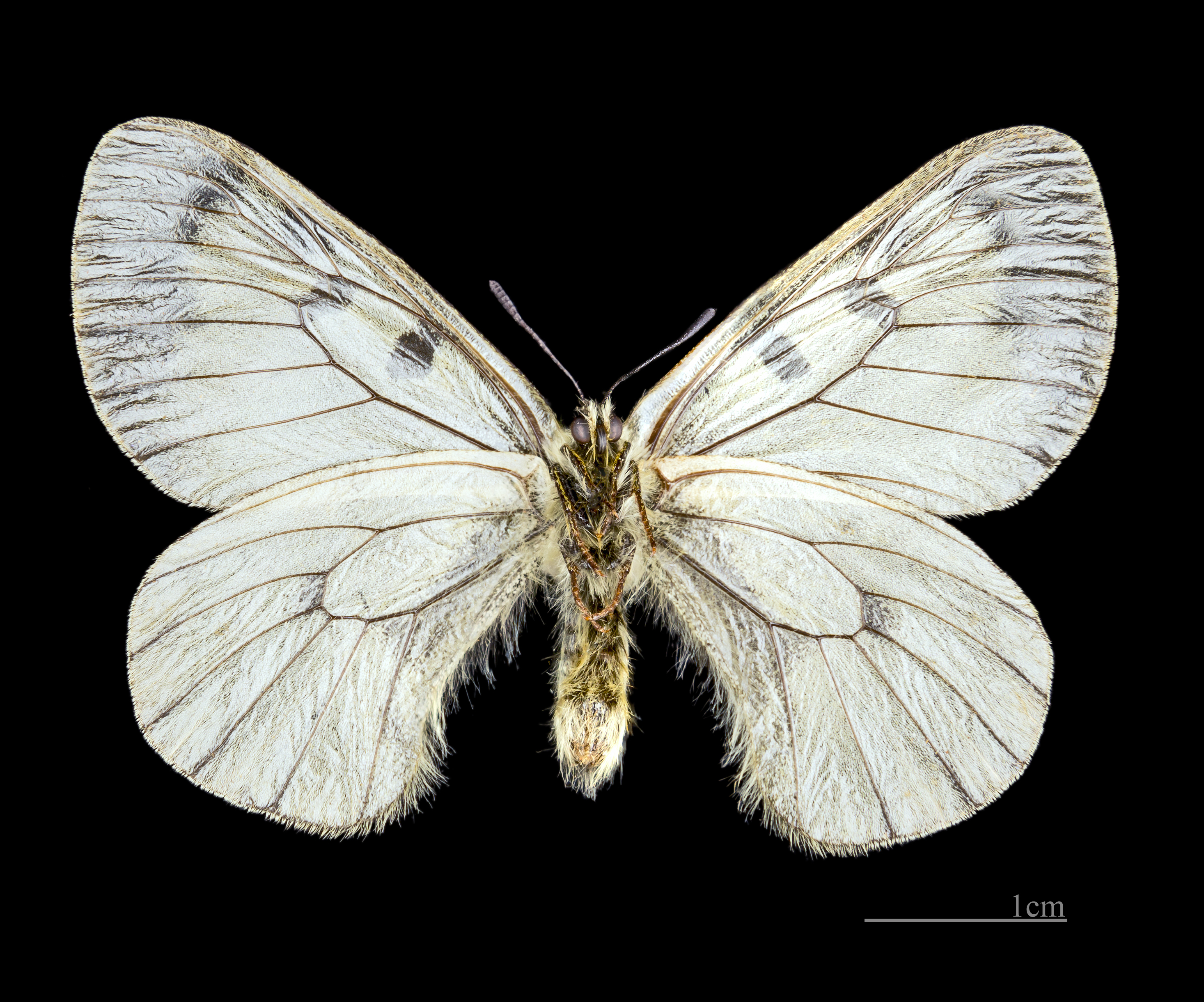 Clouded Apollo. △ Ventral side.